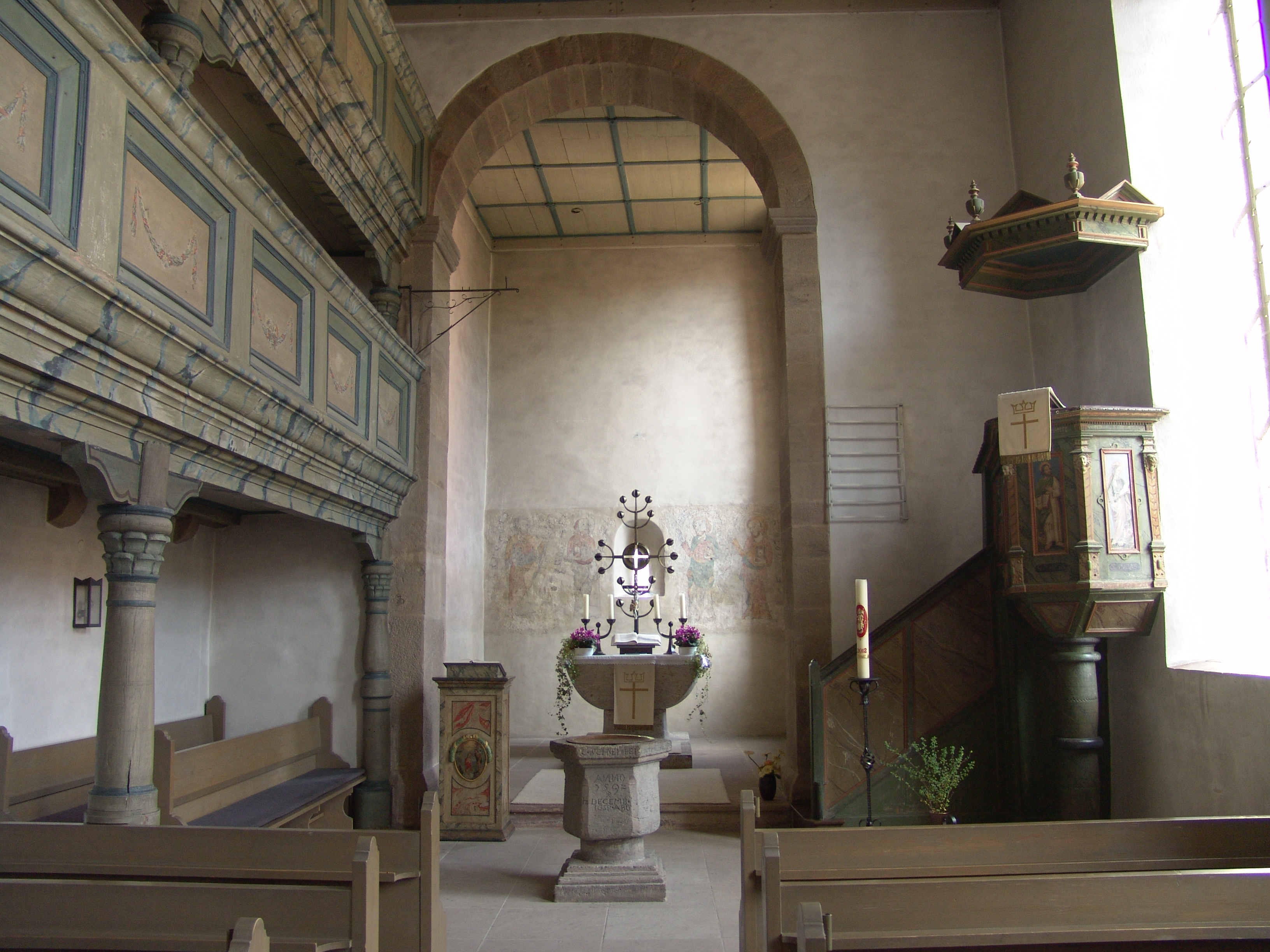 evang.-luth. Kirche in Willmars